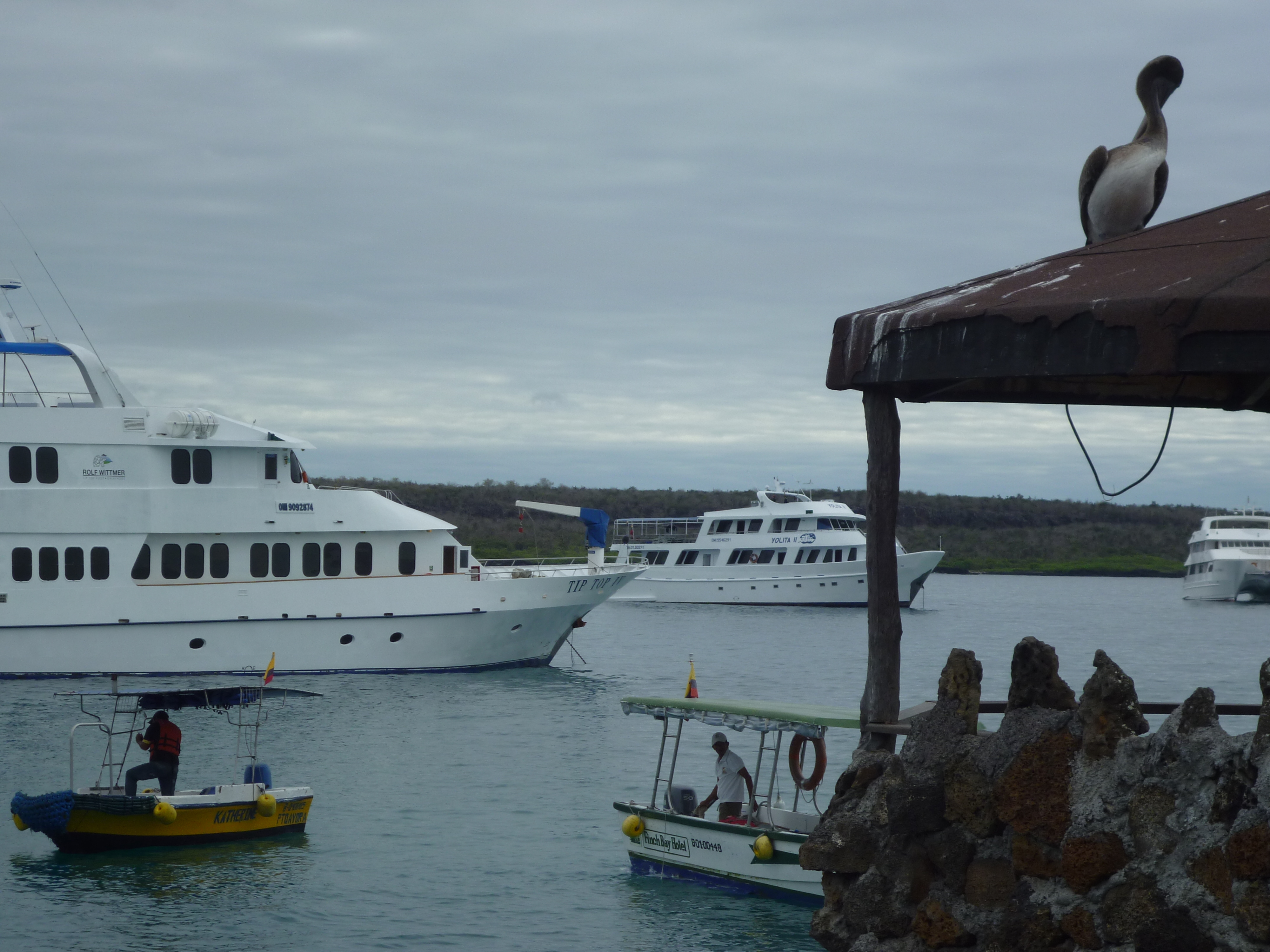 Many Boats in Puerto Ayora on the Island of Santa Cruz Galapagos